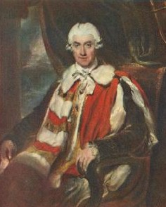 Portrait of Thomas Thynne, 1st Marquess of Bath (1734–1796) in Parliamentary Robes